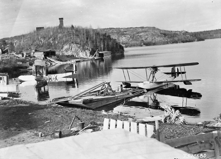 R.C.A.F. aircraft at Larder Lake, Ontario, 1926. Canadian Vickers 'Varuna' I G-CYGV (left) and 'Vedette' I G-CYFS (right).